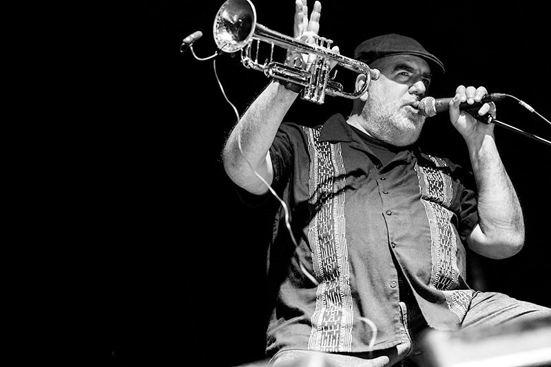 Randy Brecker at Aarhus Jazz Festival, Denmark 2017